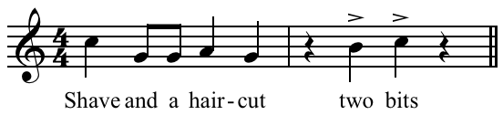 "Shave and a Haircut" in C. Created by Hyacinth (talk) 00:14, 8 November 2010 using Sibelius 5.